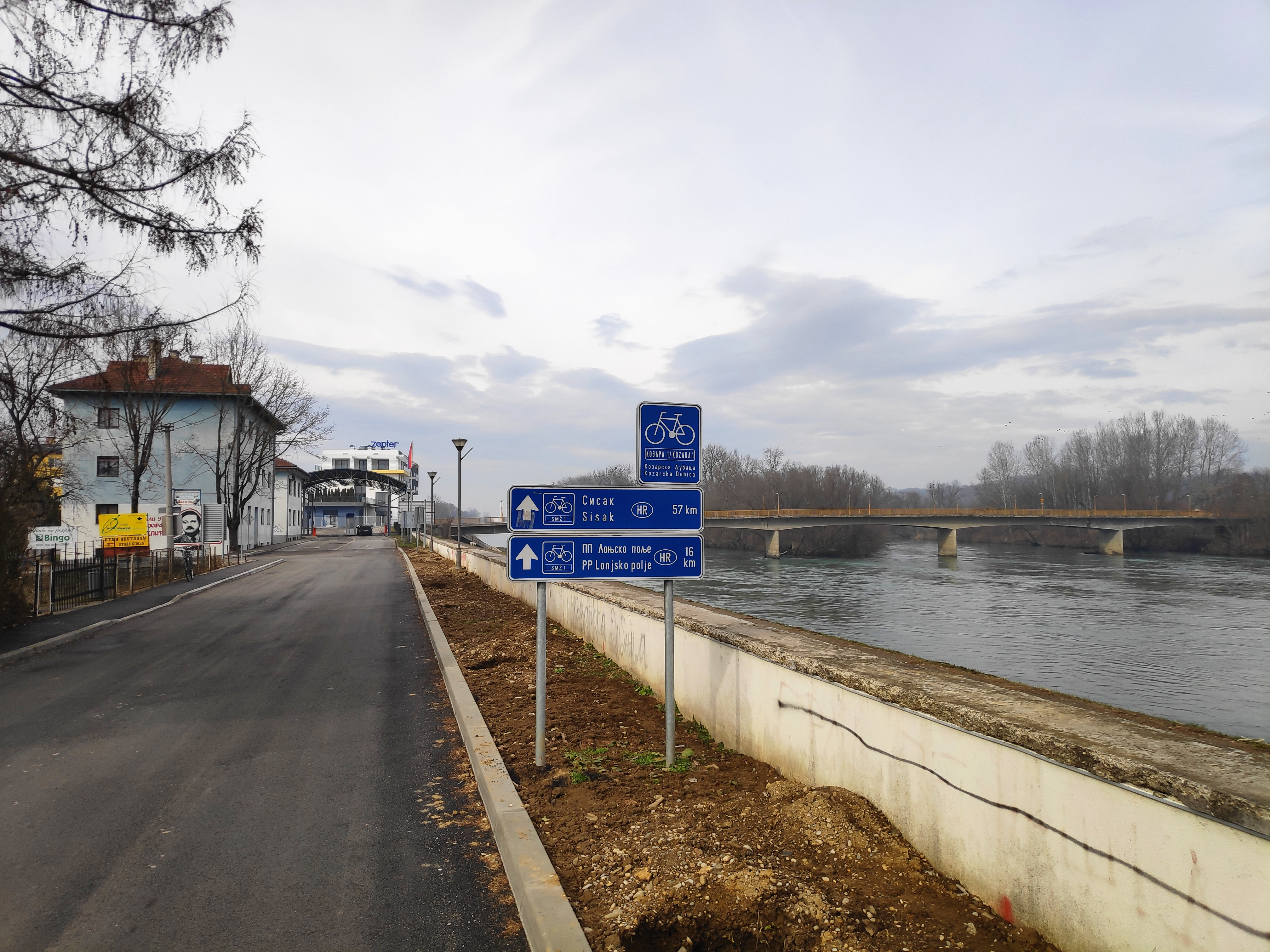 border Kozarska Dubica, Republika Srpska